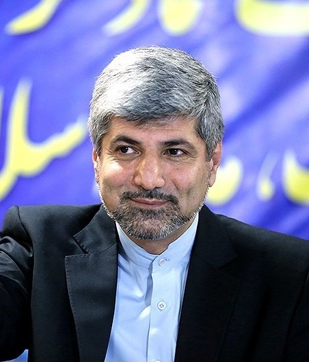 Ramin Mehmanparast